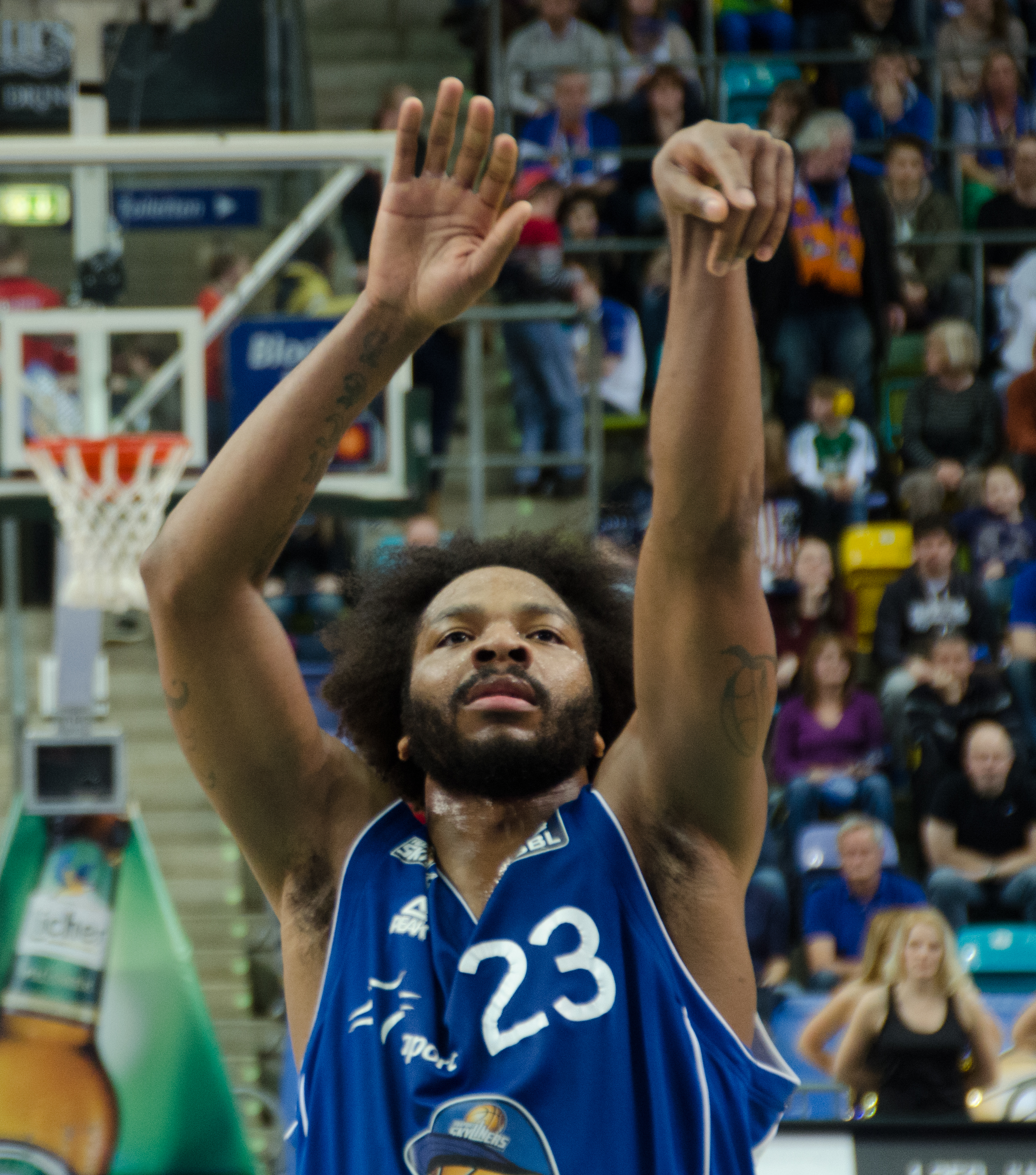 Fraport Skyliners vs Mitteldeutscher BC on 1 March 2015